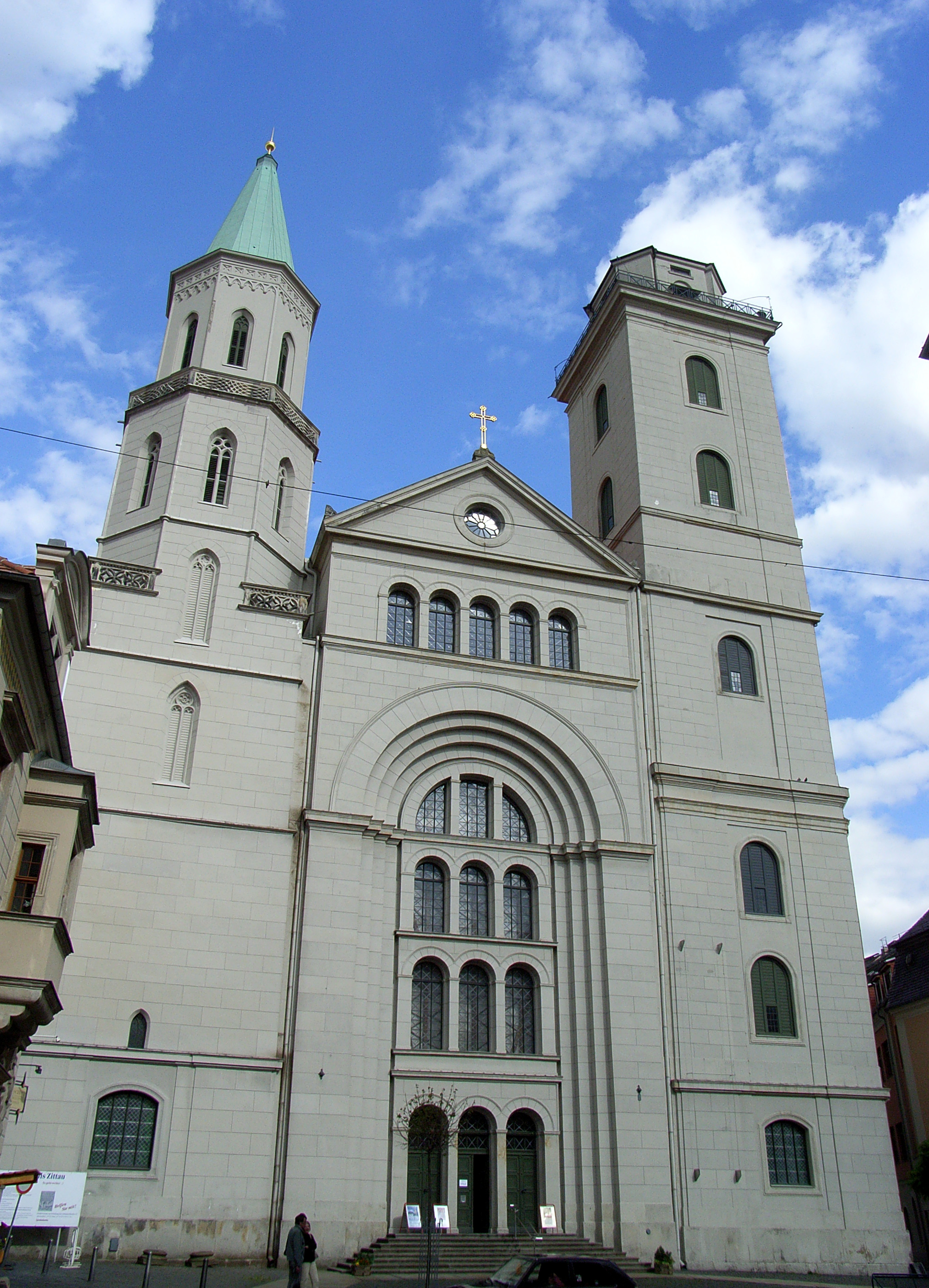 Zittau, Church of St John. Western façade.